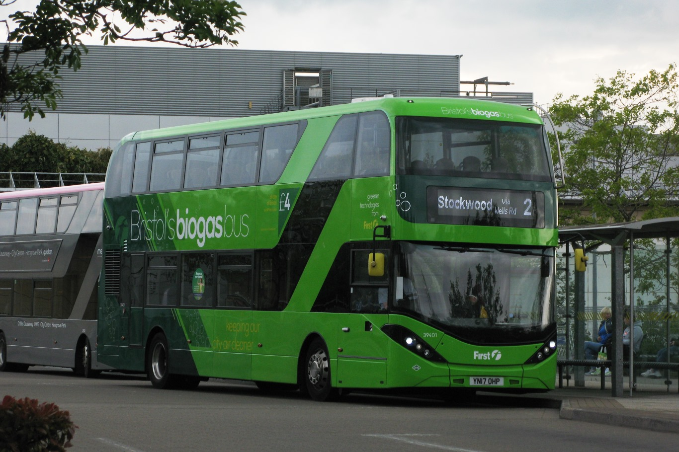 First West of England's biogas-powered 39401 (an Enviro400 City with Scania power unit) at Cribbs Causeway on route 2 across Bristol to Stockwood.